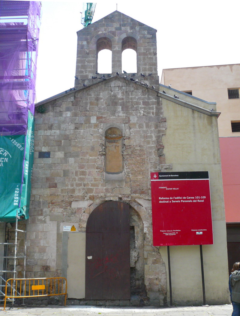 Sant Llàtzer, Barcelona.